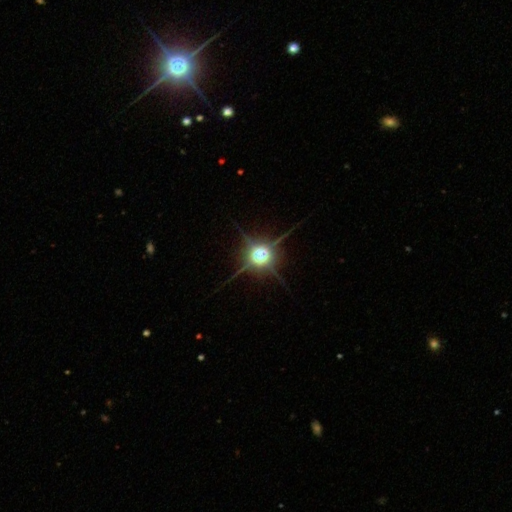 Image of the G-type main sequence star Tuiren (HAT-P-36) in Aladin Lite from the Sloan Digital Sky Survey (SDSS). Aladin Lite is software developed by the Centre de Données astronomiques de Strasbourg.